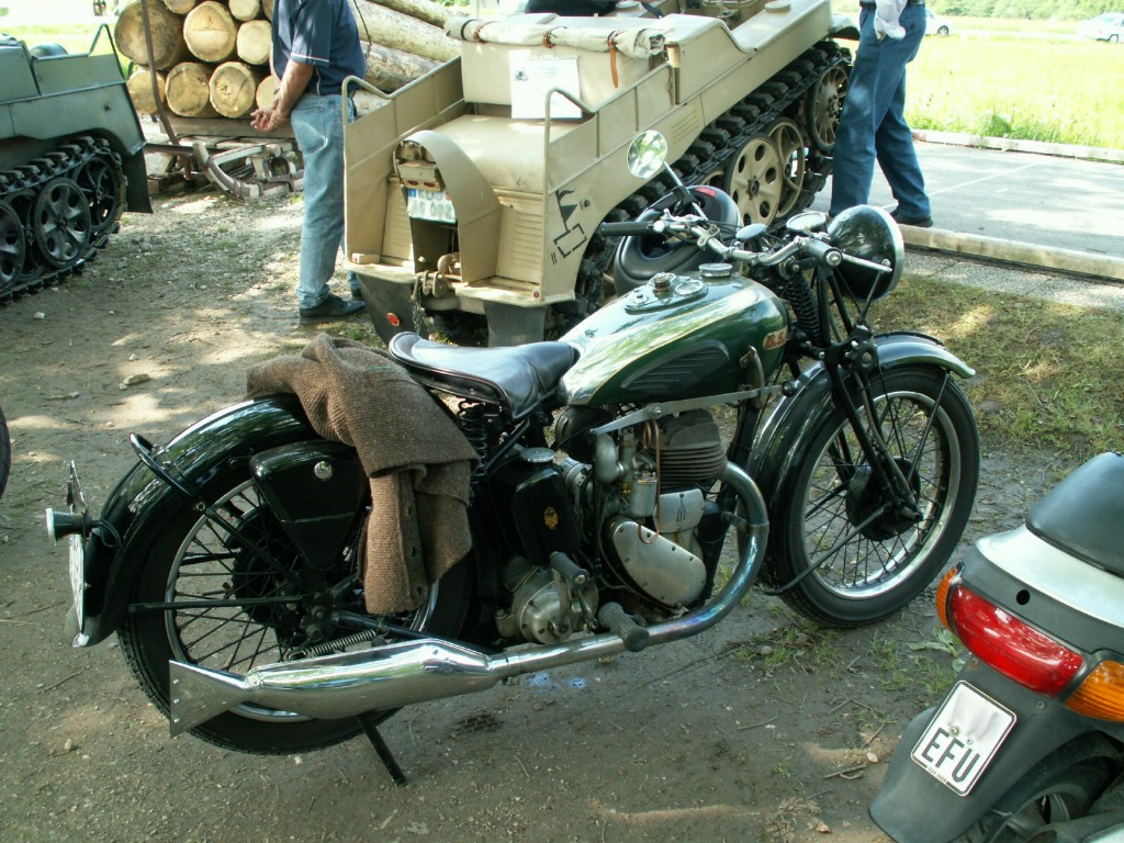 BSA motorcycle